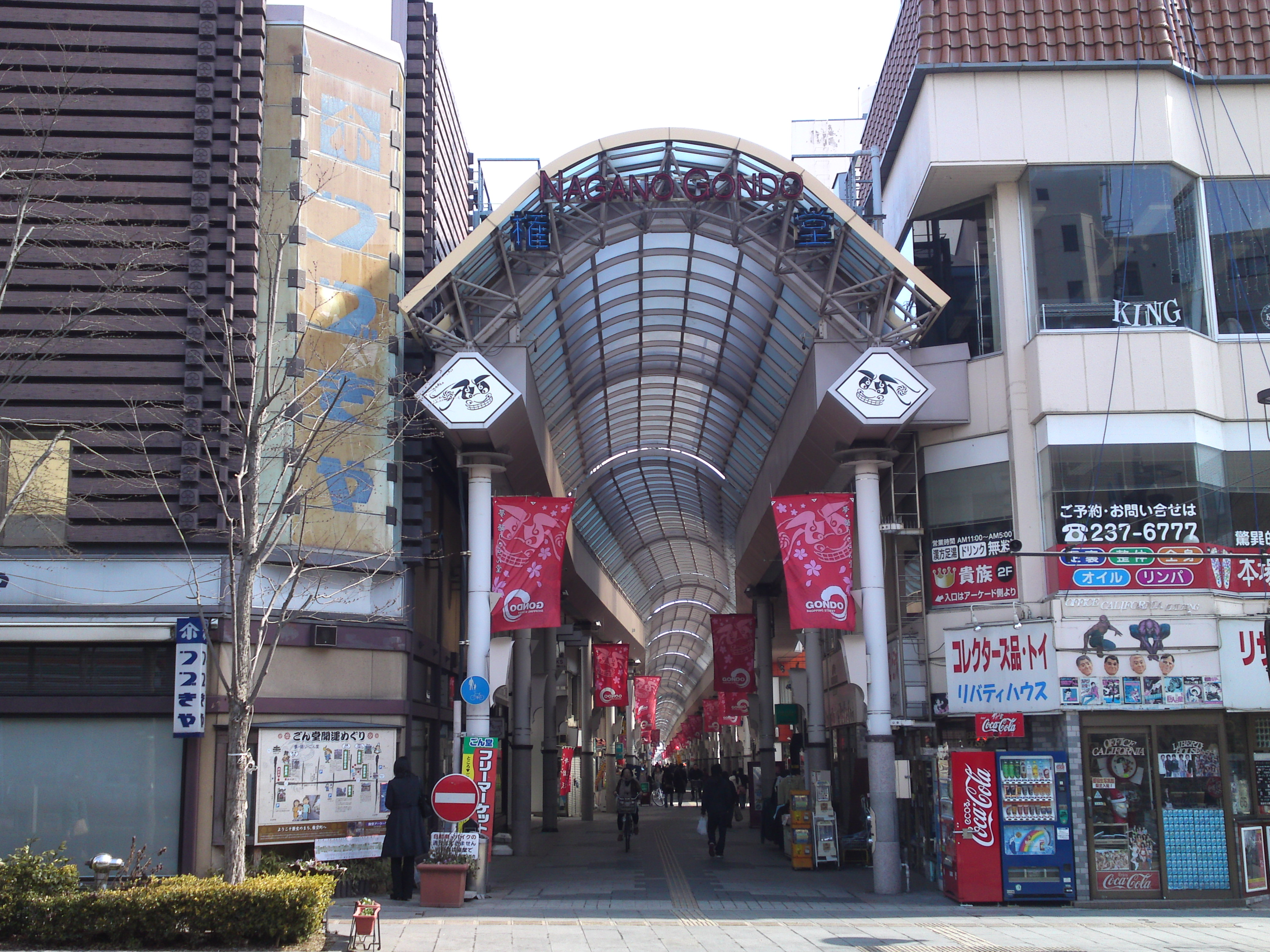 West Entrance of Gondo Arcade, Nagano City, Japan